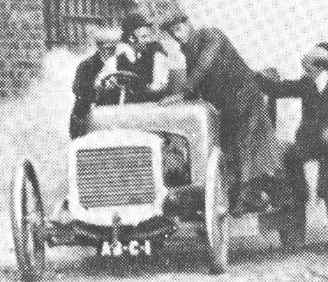 1906 Austin 15/20 25-30 hp This image is an enlargement from a set of photographs of the first Austin car, a 25-30, setting off for its first test run with Herbert Austin at the wheel.